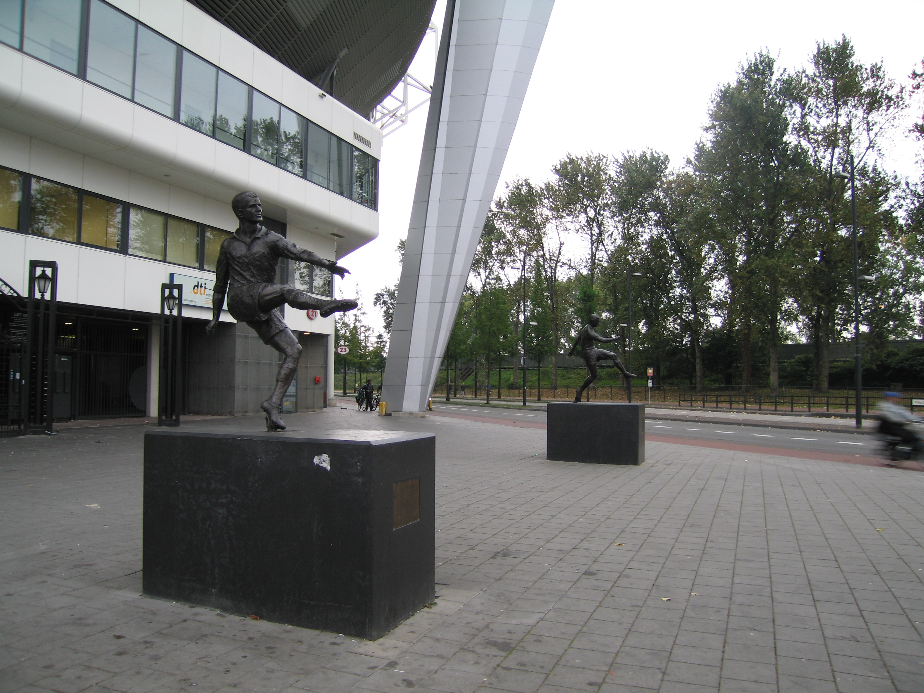 Statues of former players at the entrance of the Philips Stadion